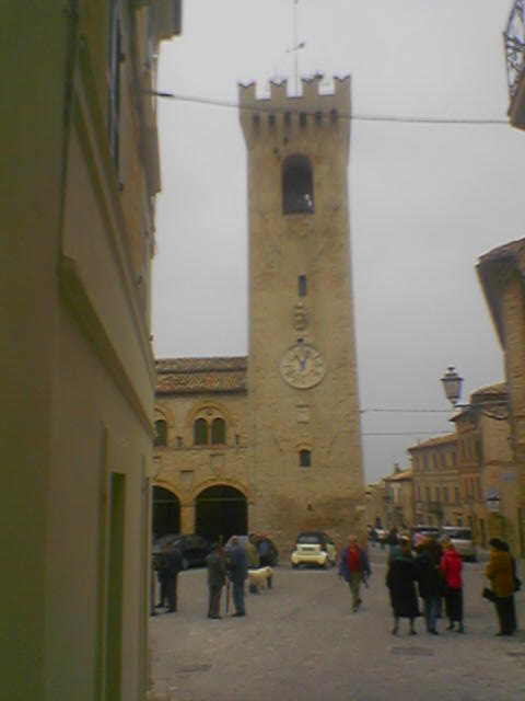 Montelupone, square